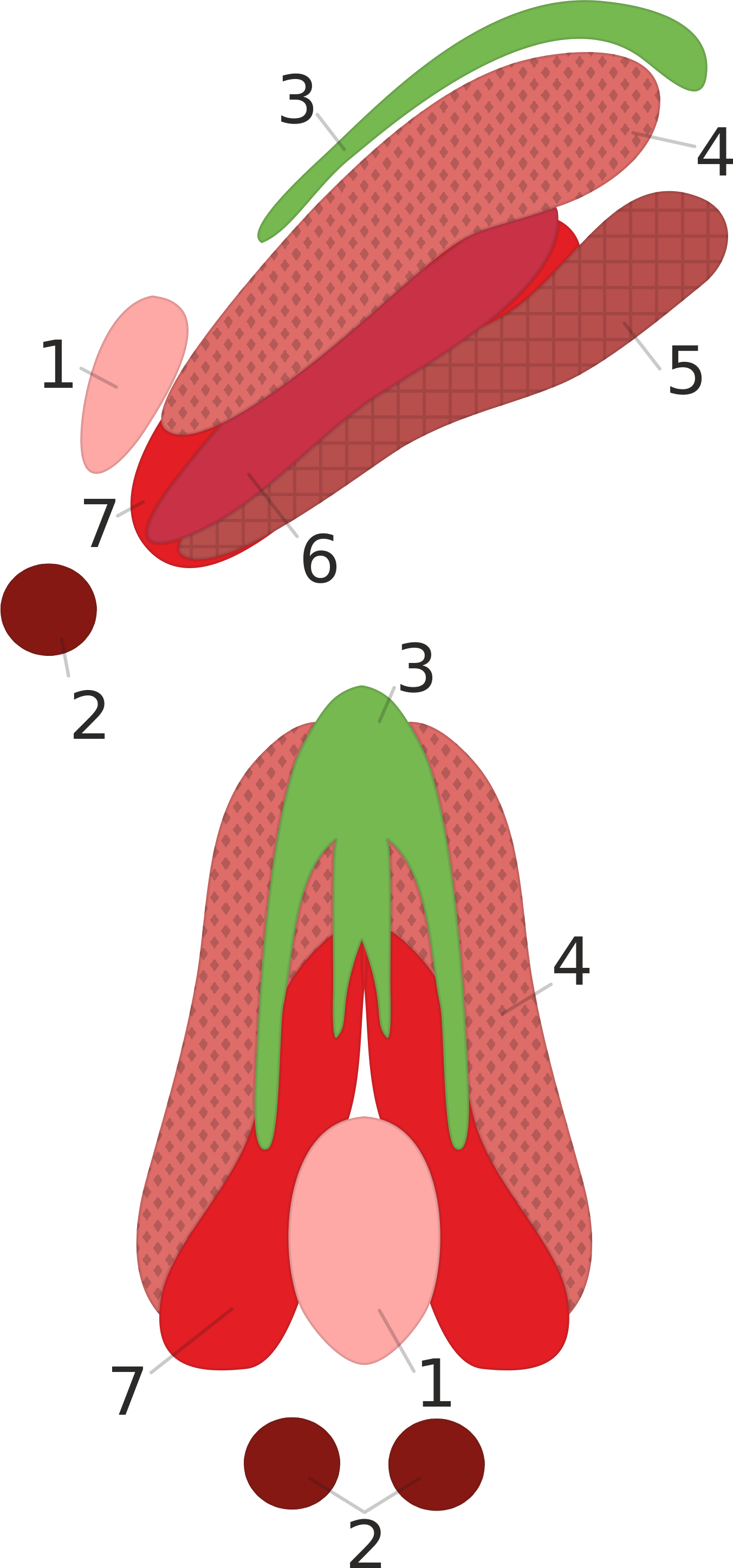 The oculomotor nuclear complex, Own work based on illustration from "chapter 3, Innervation of the Extraocular Muscles" in William, M.D. Tasman , ed. (in english) (June 1992) Duane's Foundations of Clinical Ophthalmology, Lippincott Williams & Wilkins; Revised edition ISBN: 978-0061480010.